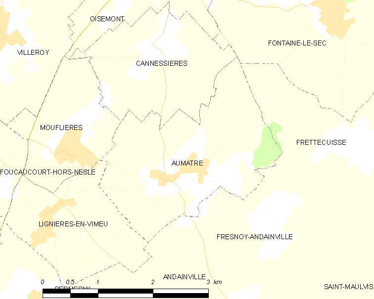 Map of French municipality Aumâtre